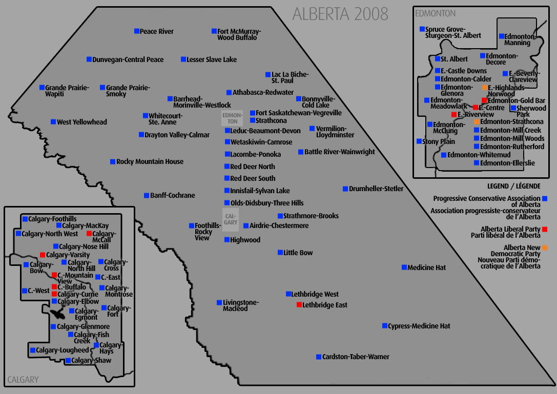 Riding-by-riding map of the Alberta general election, 2008. Cartographie des résultats des élections albertaines 2008 par circonscription.